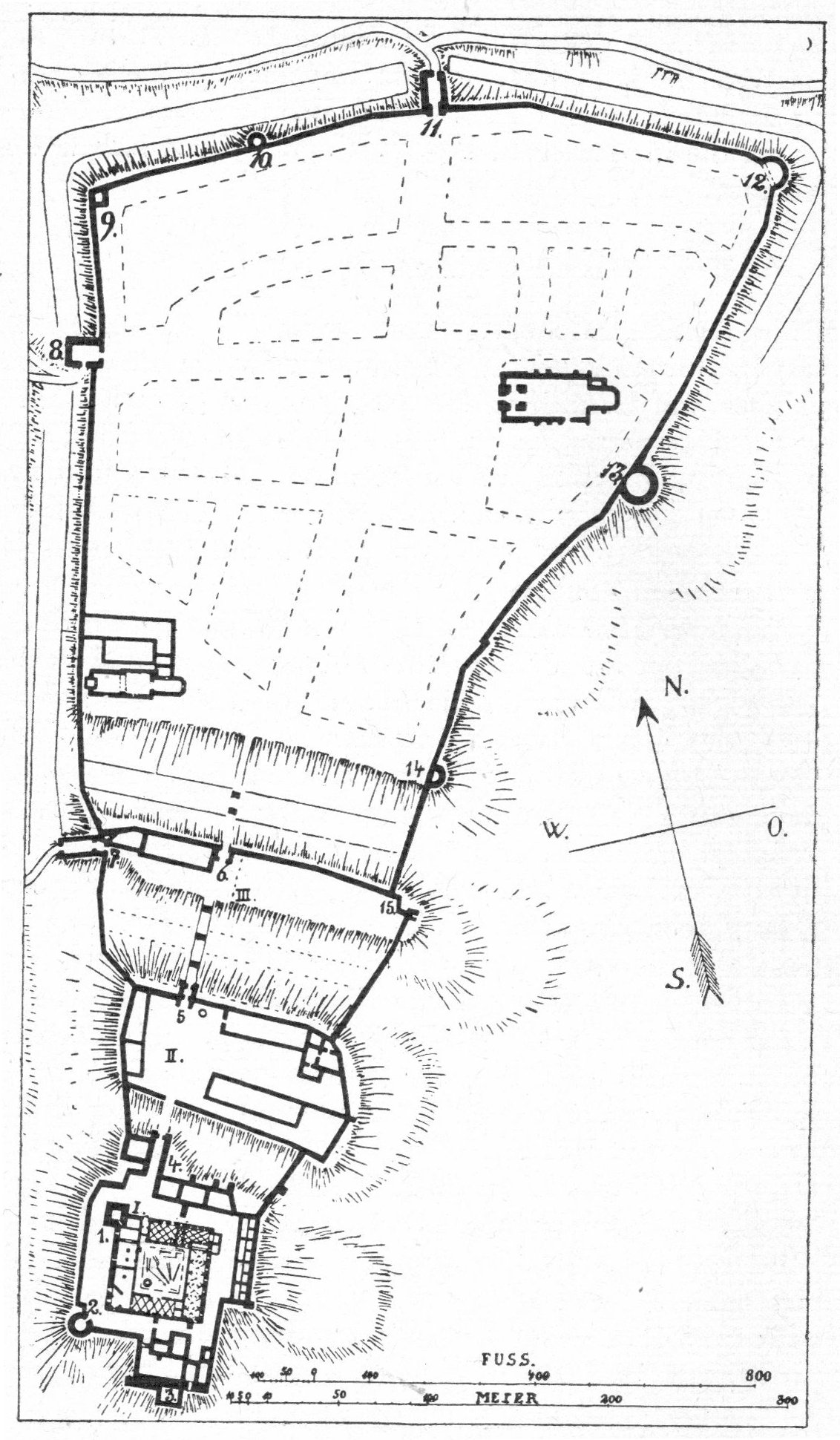 Plan of Viljandi Castle and town in medieval times. The main castle (in south) is separated from the town by two additional defensive walls and three moats.